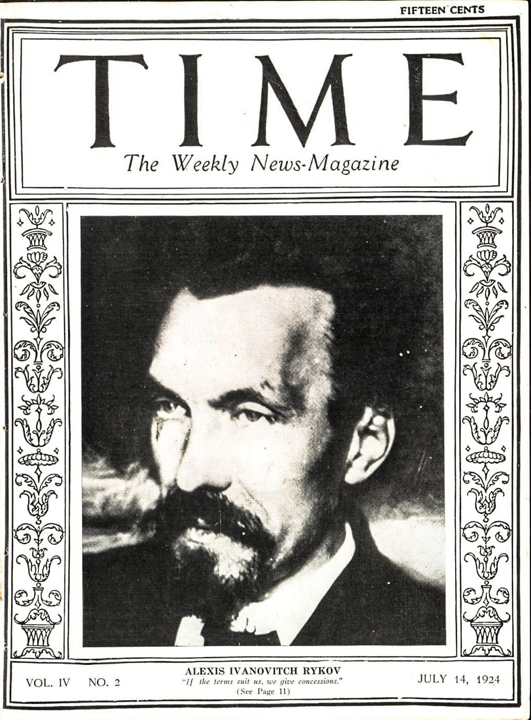 Alexei Rykov on the cover of Time magazine.